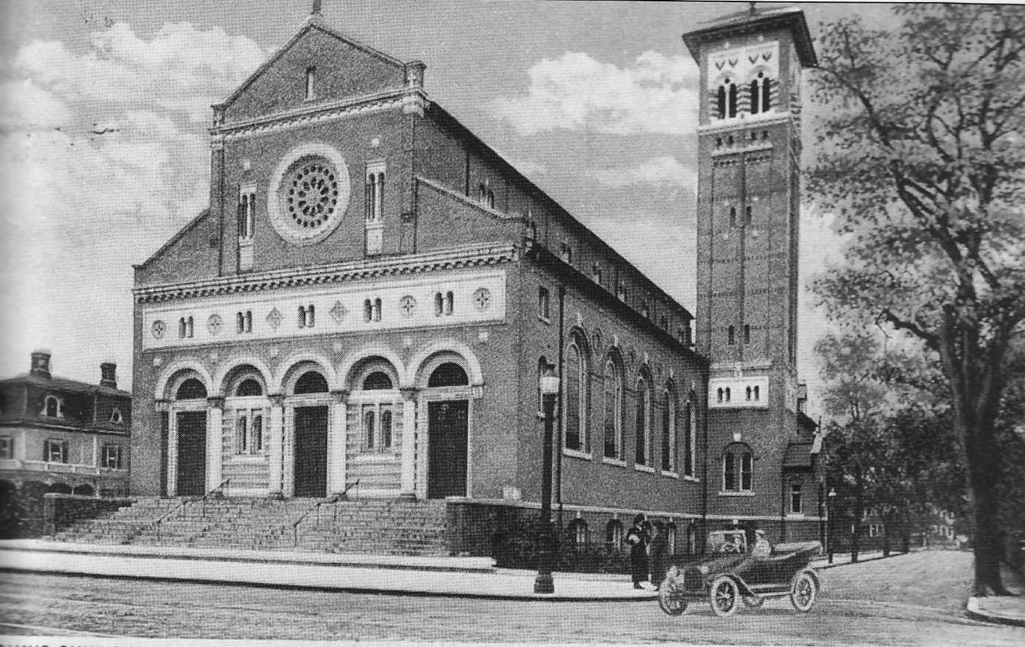 St. John the Evangelist, Cambridge MA c1912. St. John The Evangelist Roman Catholic Church; Cambridge, MA